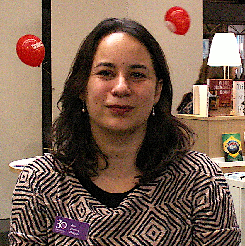 At the Göteborg Book Fair 2014.